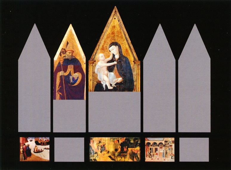 Pietro di Giovanni d'Ambrogio, Polyptych, 1435-40, reconstruction.